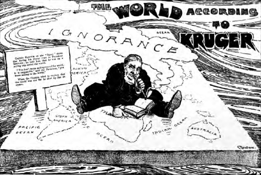 1898 cartoon depicting "The World According to Kruger". Paul Kruger, the President of the South African Republic (or Transvaal), believed the world was flat. Joshua Slocum, an American sailor, was attempting to become the first man to circumnavigate the world solo. When Slocum was presented to Kruger during his stopover in South Africa, the President declared such an undertaking "Impossible! Impossible!" Slocum recalled the incident fondly in his memoir of the journey around the world.